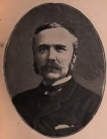 Sir Henry Campbell-Bannerman Licensing Captioned As { }